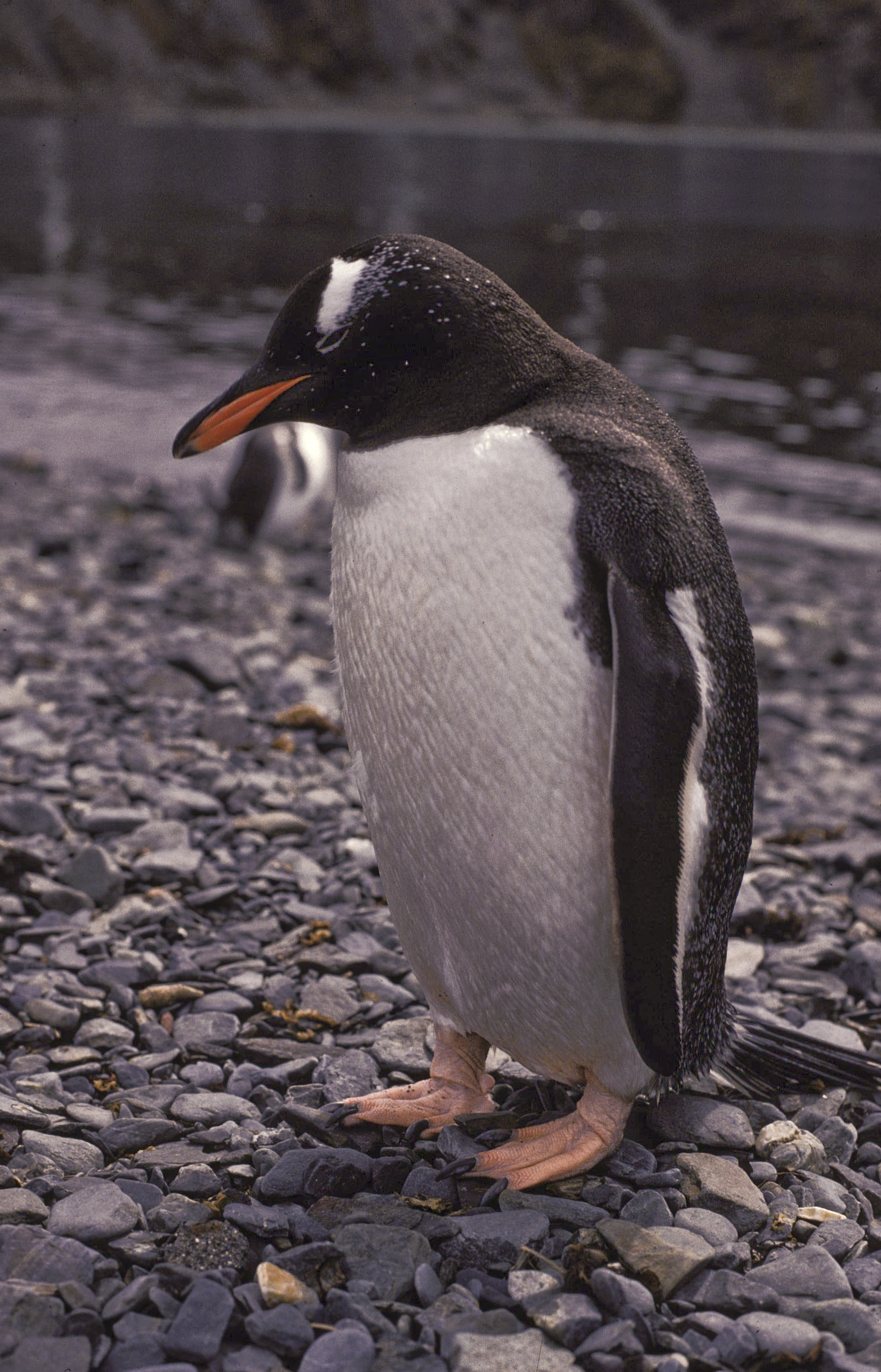 Gentoo Penguin, Atka Bay, Weddell Sea, Antarctica